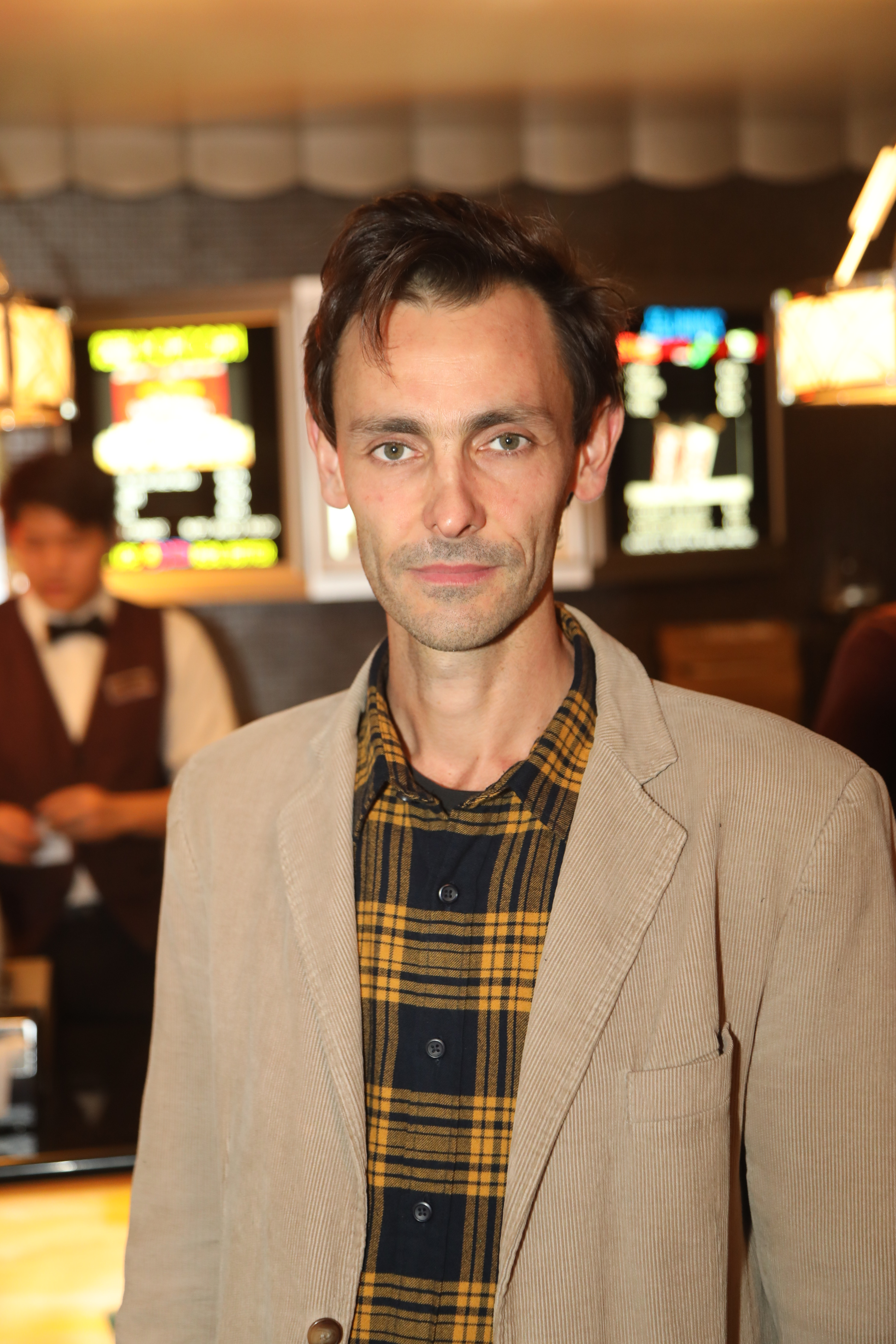 Actor Ivo Müller at the Hollywood Brazilian Film Festival for the screening of "The Orphan", directed by Carolina Markowickz